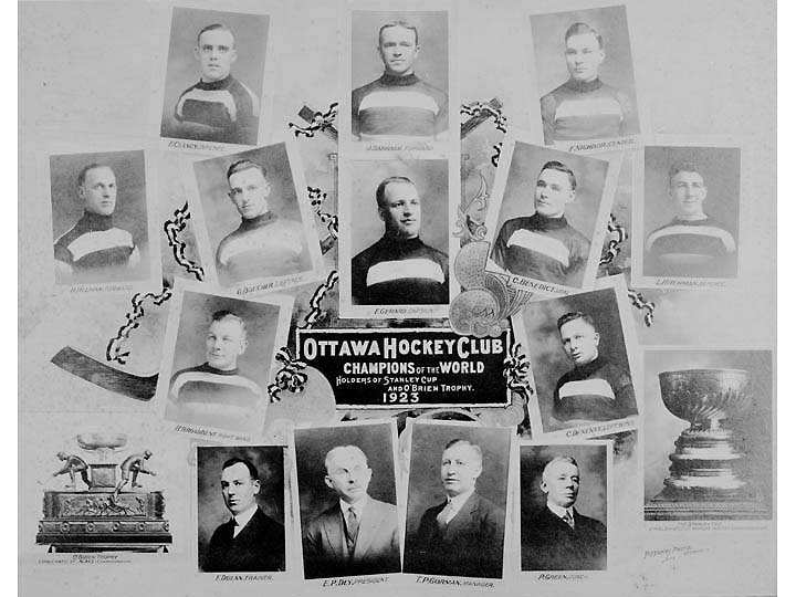 The 1923 Ottawa Senators, Stanley Cup Champions